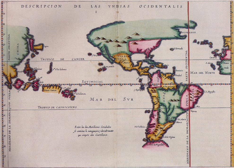 Map by Spanish chronicler, historian, and writer, Antonio de Herrera y Tordesillas (1548–1625) showing the meridian established under the 1494 Treaty of Tordesillas to define land entitlements between Spain and Portugal.